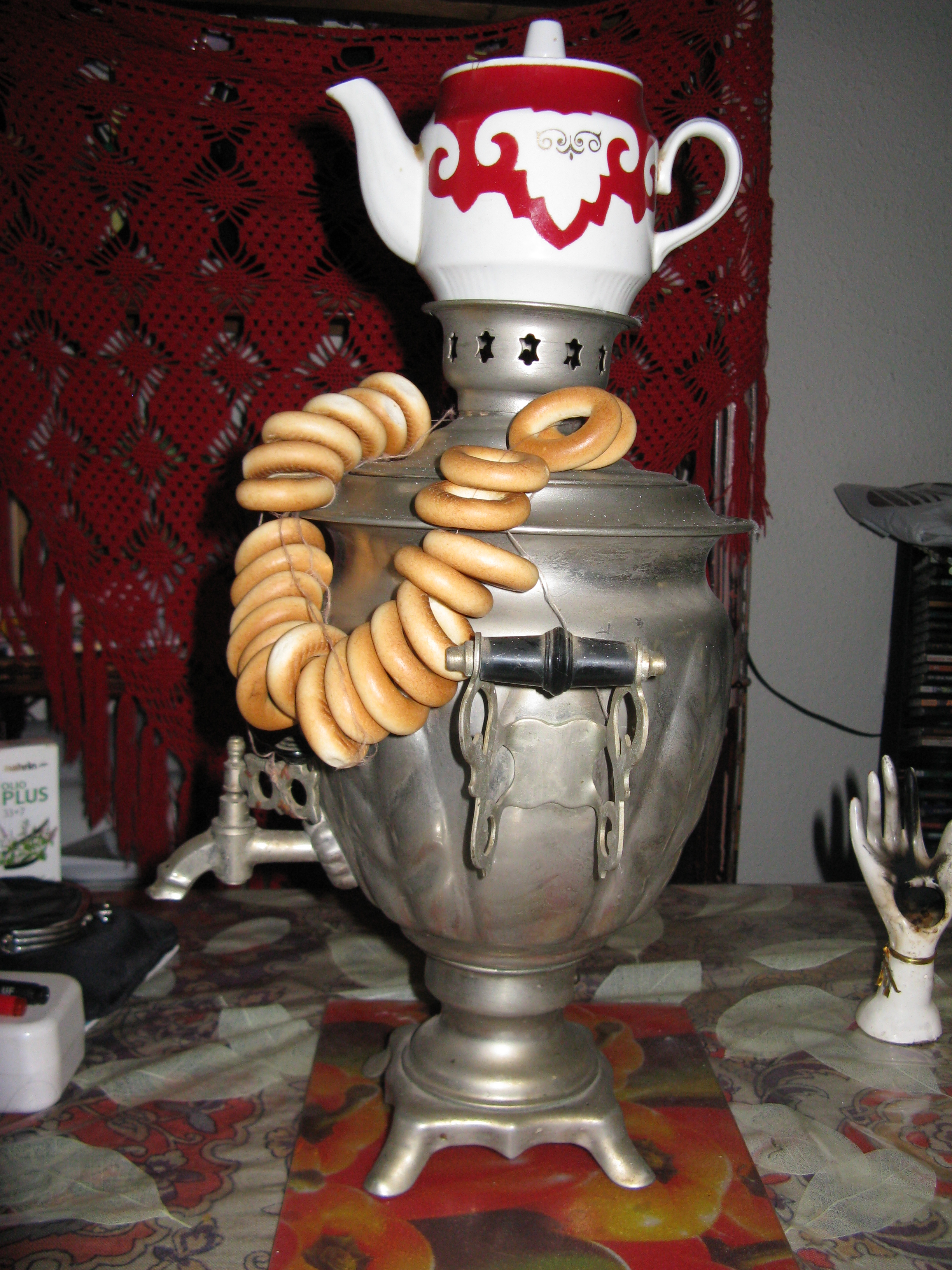 Samovar with a teapot and Sooshki